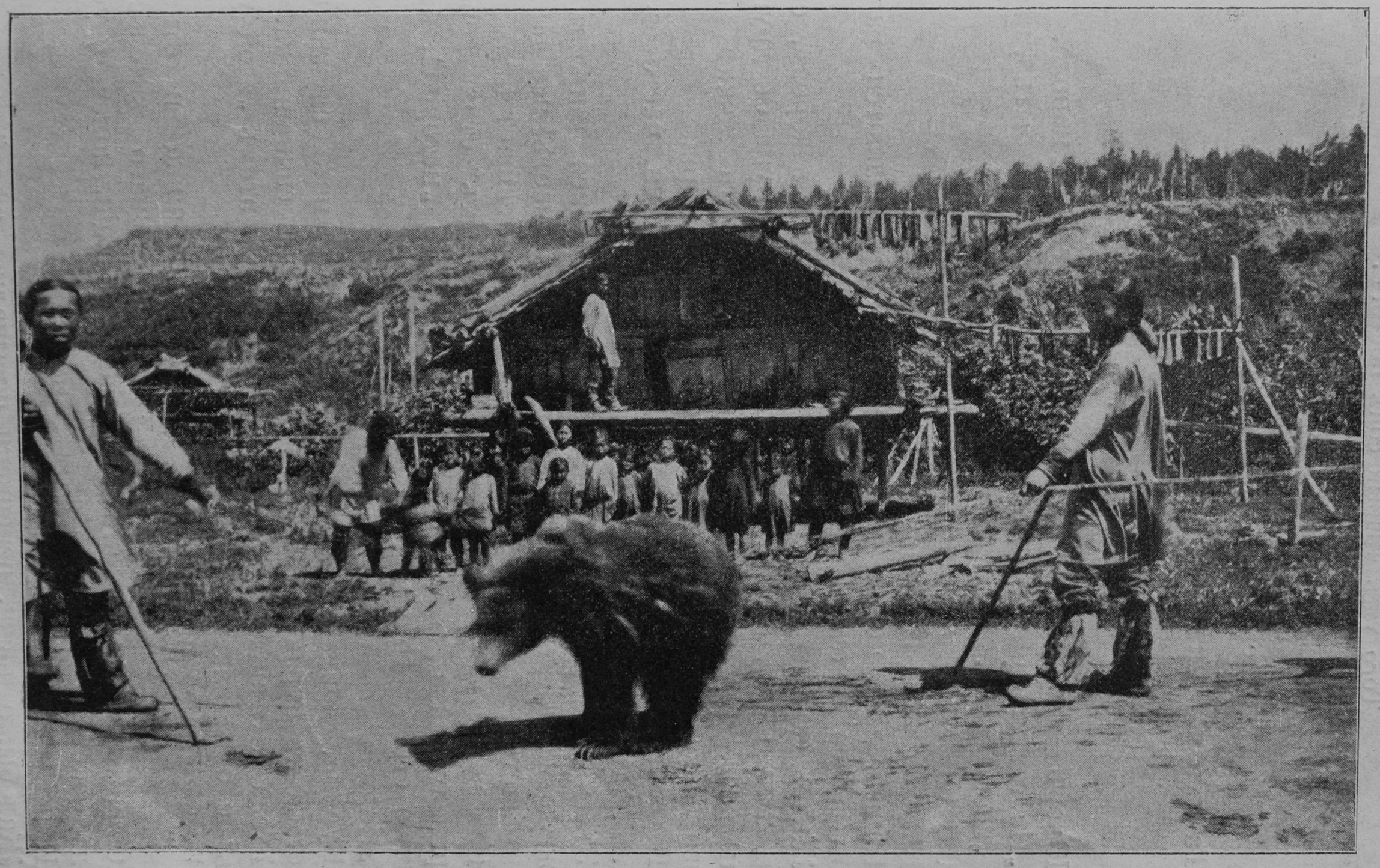 The Nivkh are native people of Sakhalin. Nivkh amusement (bear festival).